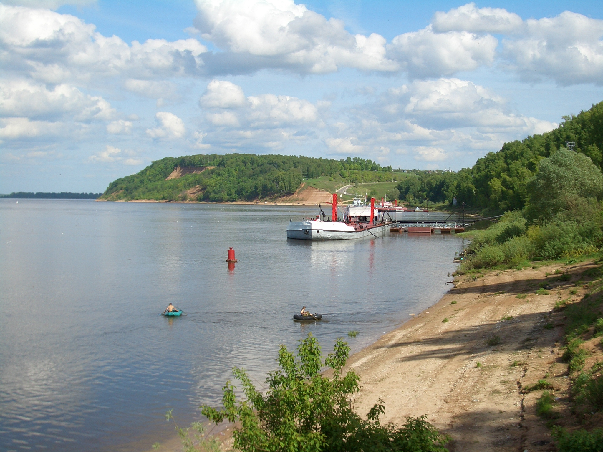 Volga waterfront near Kstovo, looking east from the (former) passenger boat dock. The oil port facility in the foreground; the Zimenki Hill in the background.